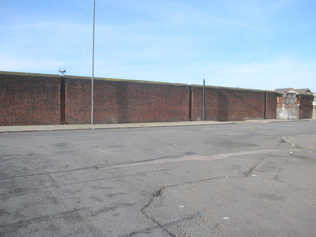 The wall of Clarence Graving Docks Looking across Regent Road towards the wall of Clarence Graving Docks. Before 1957 this unspectacular view would have been enhanced by the presence of the Liverpool Overhead Railway and the Clarence Dock station, which stood above the height of the dock wall. The vertical channels in the wall are where the supports for the railway were located.